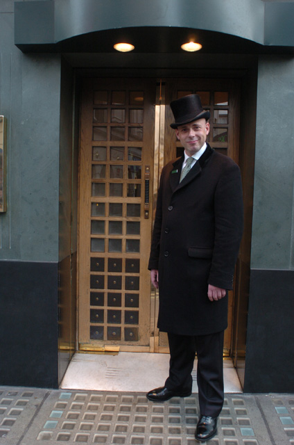 Doorman at 'The Ivy' West Street WC2. For 20 years the most famous and finest restaurant in London's Theatreland. Frequented by celebrities, plagued by paparazzi. Everyone goes to be seen at The Ivy.